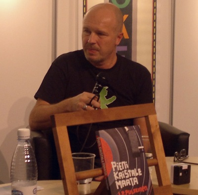 Finnish writer and journalist J. P. Pulkkinen.